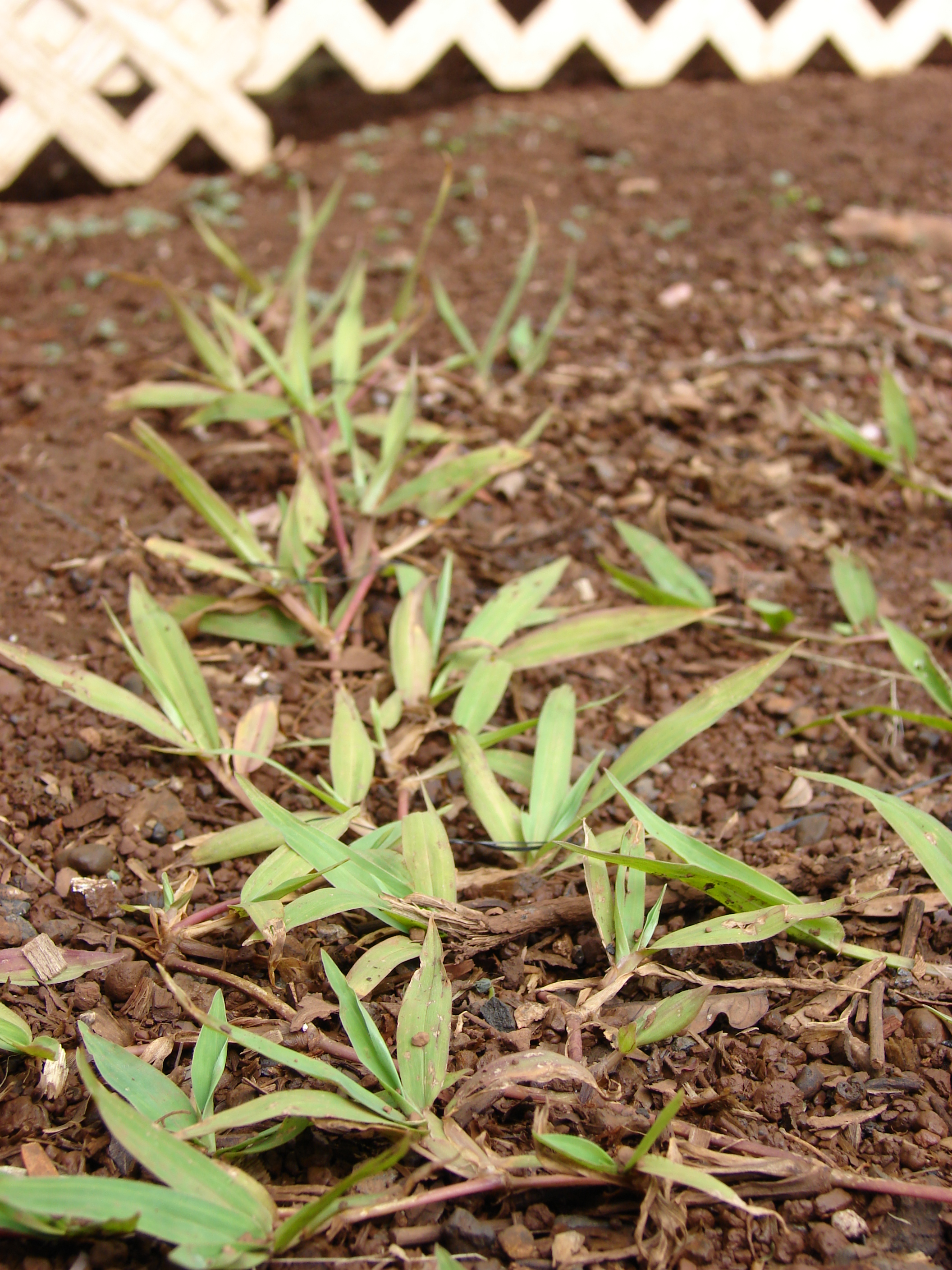 Paspalum conjugatum (habit). Location: Maui, Makawao